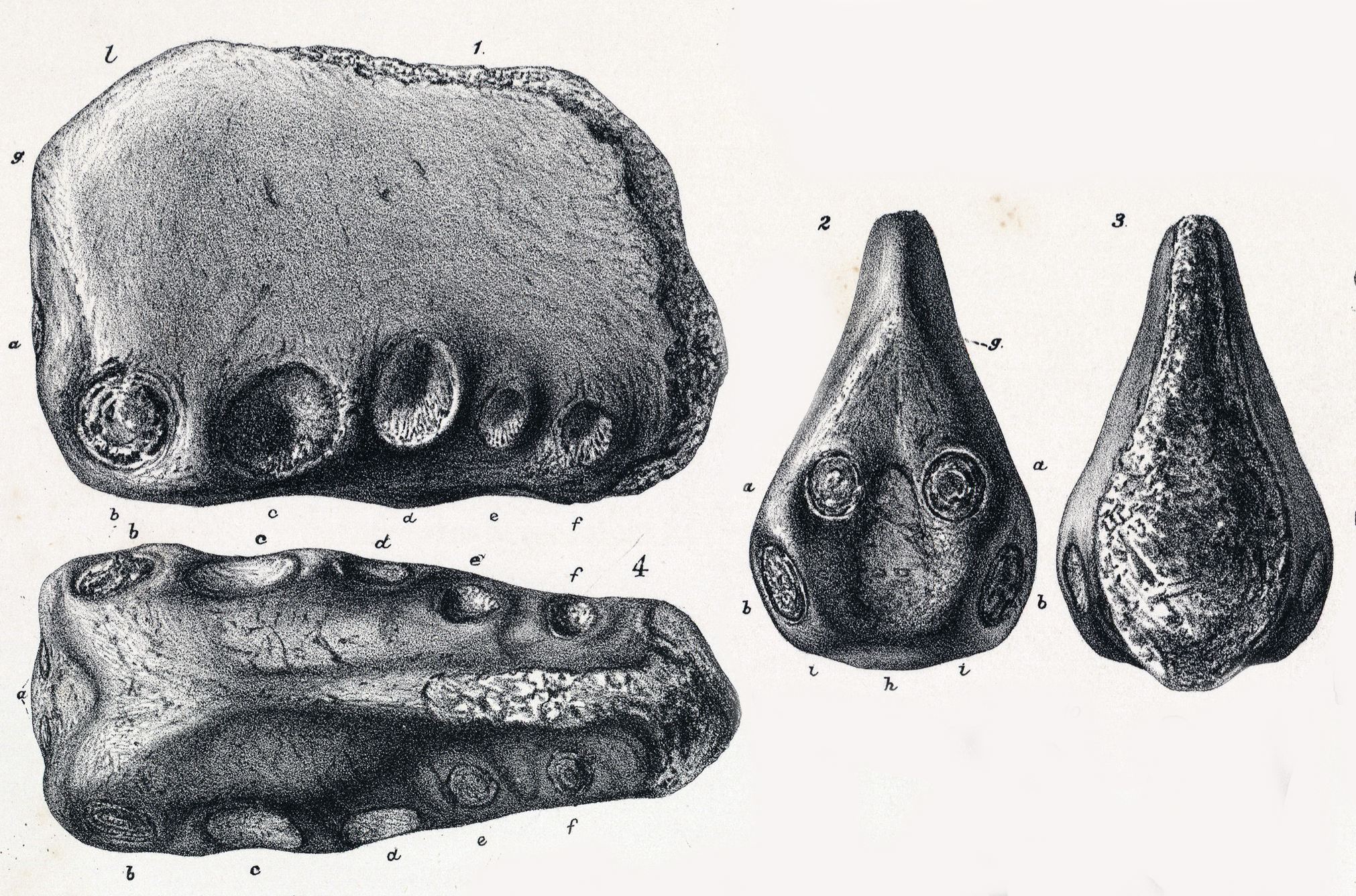 Fig. 1. Left side view of fore end of upper jaw of Coloborhynchus clavirostris. Fig. 2. Front view of the same specimen. Fig. 3. Hind view of ditto. Fig. 4. Under or palatal view of ditto. The subject of figures 1-4, from the Hastings series of the Wealden, west of St.-Leonard's-on-Sea, Sussex, is in the possession of its discoverer, Samuel H. Beckles, Esq., F.R,S., etc.